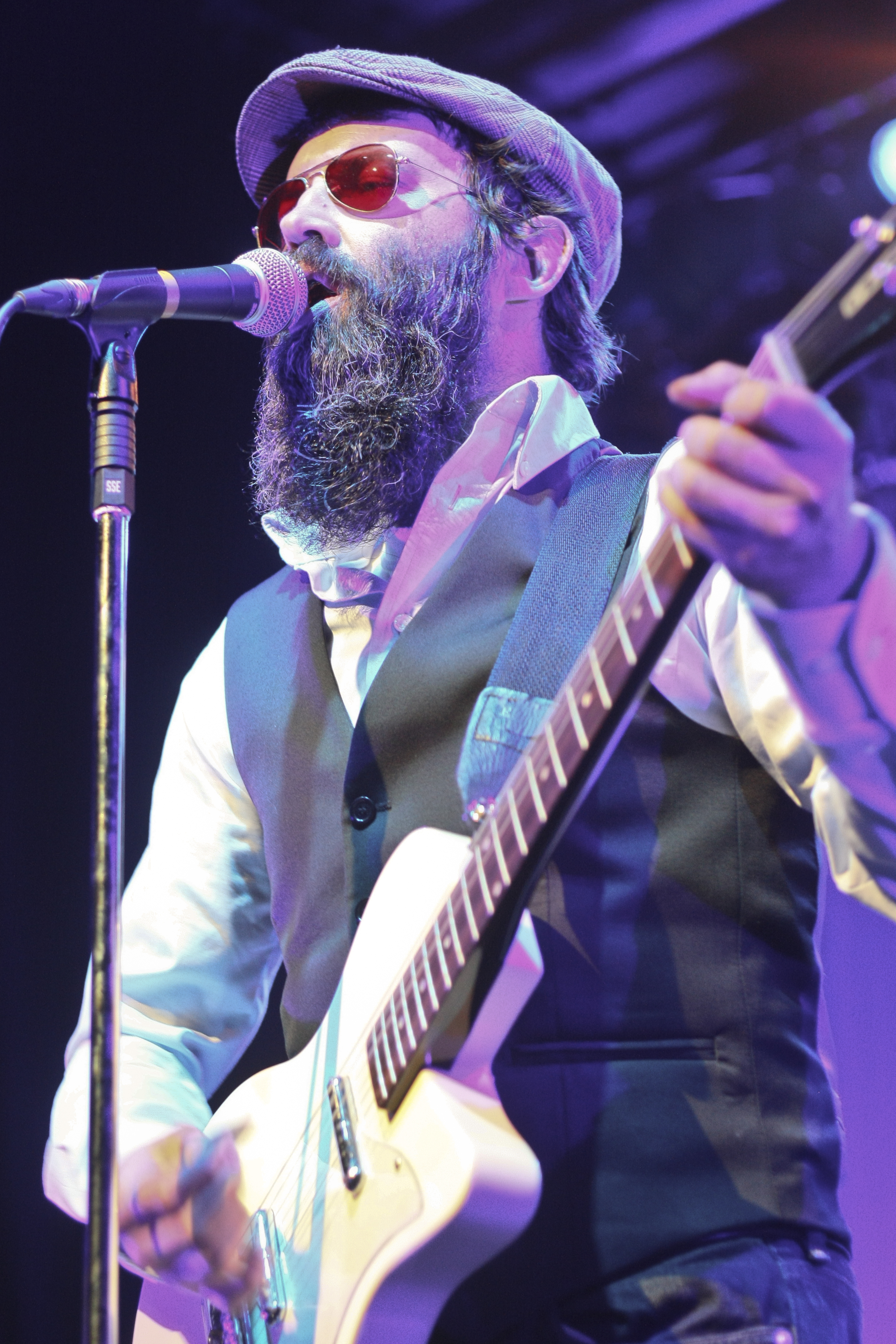 Eels on stage at the republic Salzburg 2011